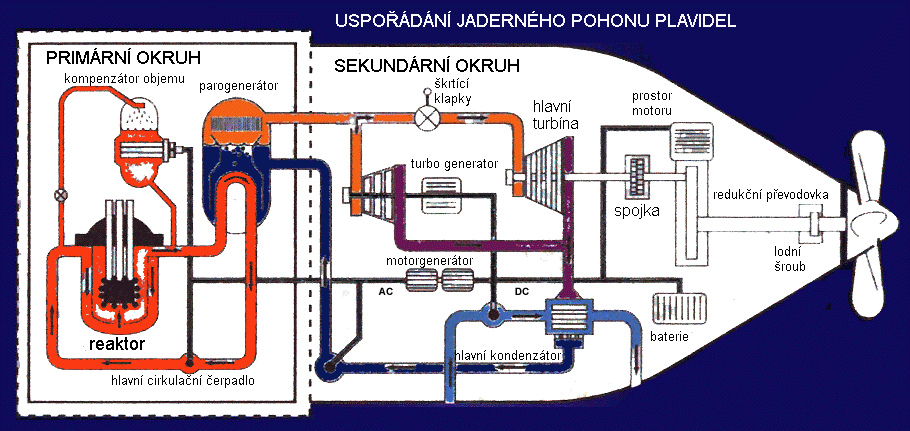 Scheme of nuclear propulsion vessels